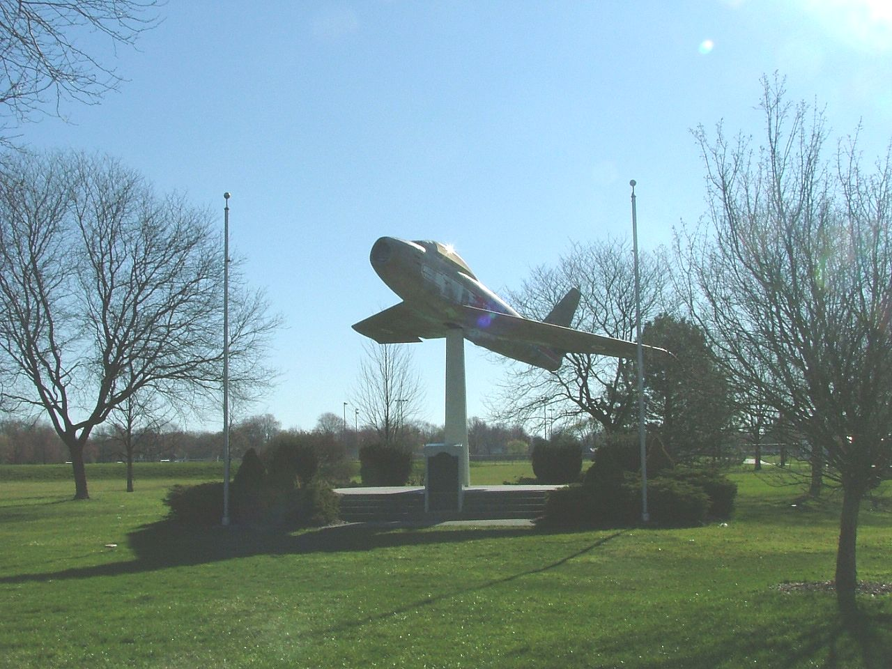 This is a shot of one of the few remaining F-86 Sabre aircraft.